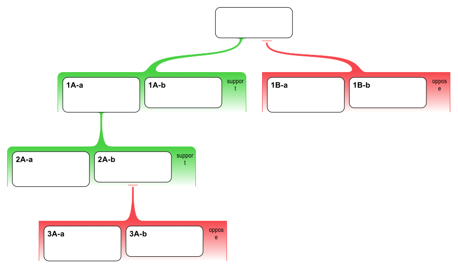 An argument map with objections to the final conclusion, and to one of the supporting premises.